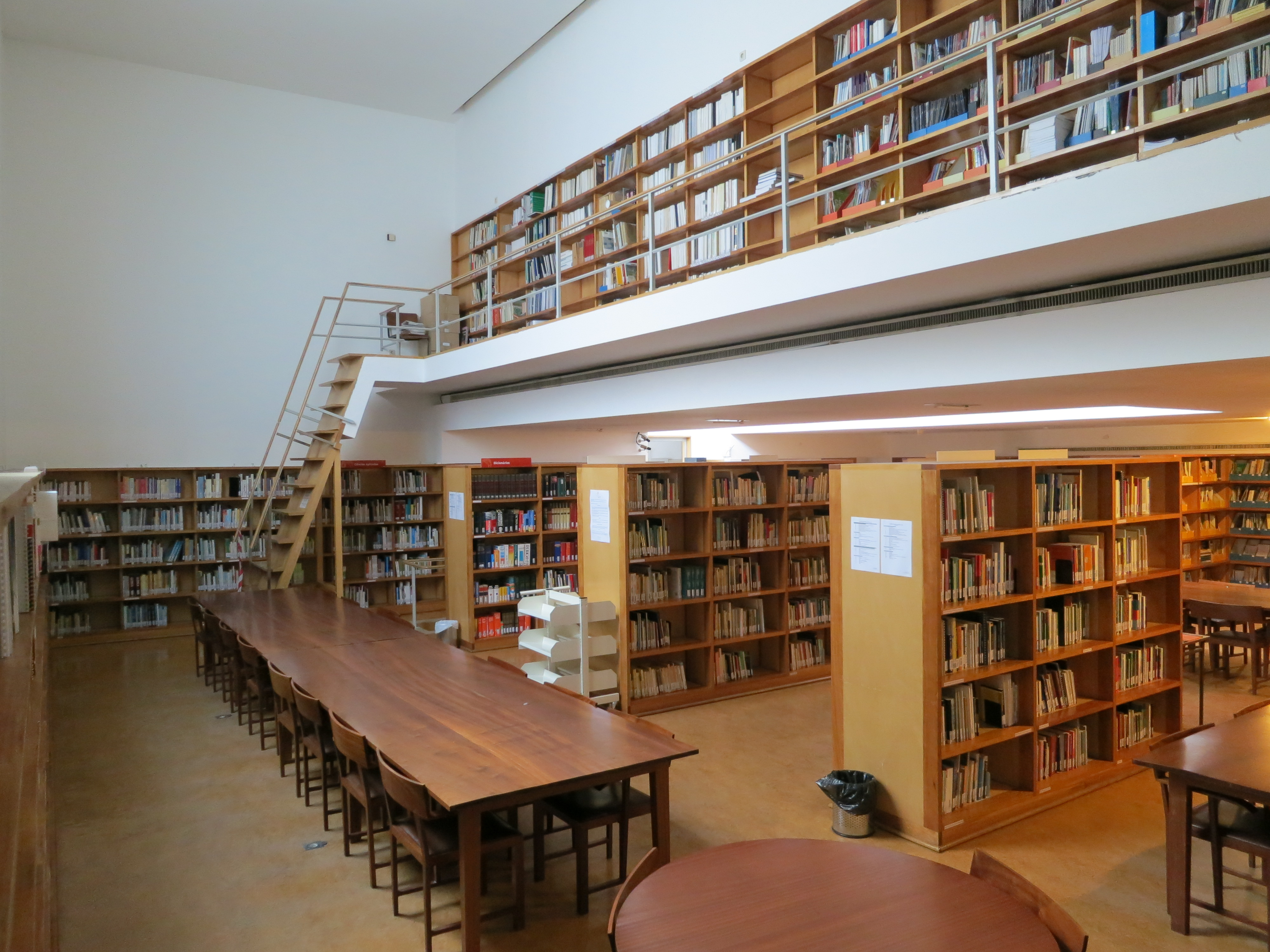 The library of the Escola Superior de Educação de Setúbal, a building by Álvaro Siza Vieira, 1986-1994, Photo by Christian Gänshirt